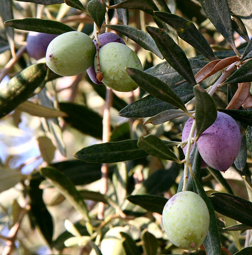 Olive Tree Kids. Taken by Nick Fraser in 2005. The fruit of an Olive Tree by the Dead Sea in Jordan.